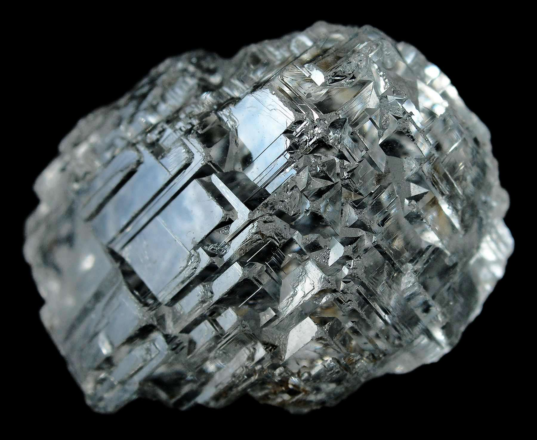 Phenakite Locality: Jos Plateau, Plateau State, Nigeria (Locality at ) Size: miniature, 3.5 x 2.3 x 2.7 cm Phenakite A STUNNINGLY gemmy, absolutely pristine , 100% gem clean specimen that I regard as perhaps gram-for-gram the finest specimen in this lot. It is mesmerizing in its complexity and in its jewel-like form. The crystal itself is absolutely colorless, a pure colorlessness that adds to the gemminess of the specimen in person (and makes it extremely hard to photograph because light refracts off all the hundreds of facets and faces here, bouncing back and forth through the crystal and making the camera unable to capture its true clarity).